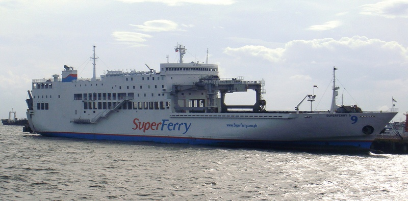 SuperFerry 9 IMO Number: 8517396 Callsign: DYUQ Length p.p.: 141.5 m Beam: 23 m